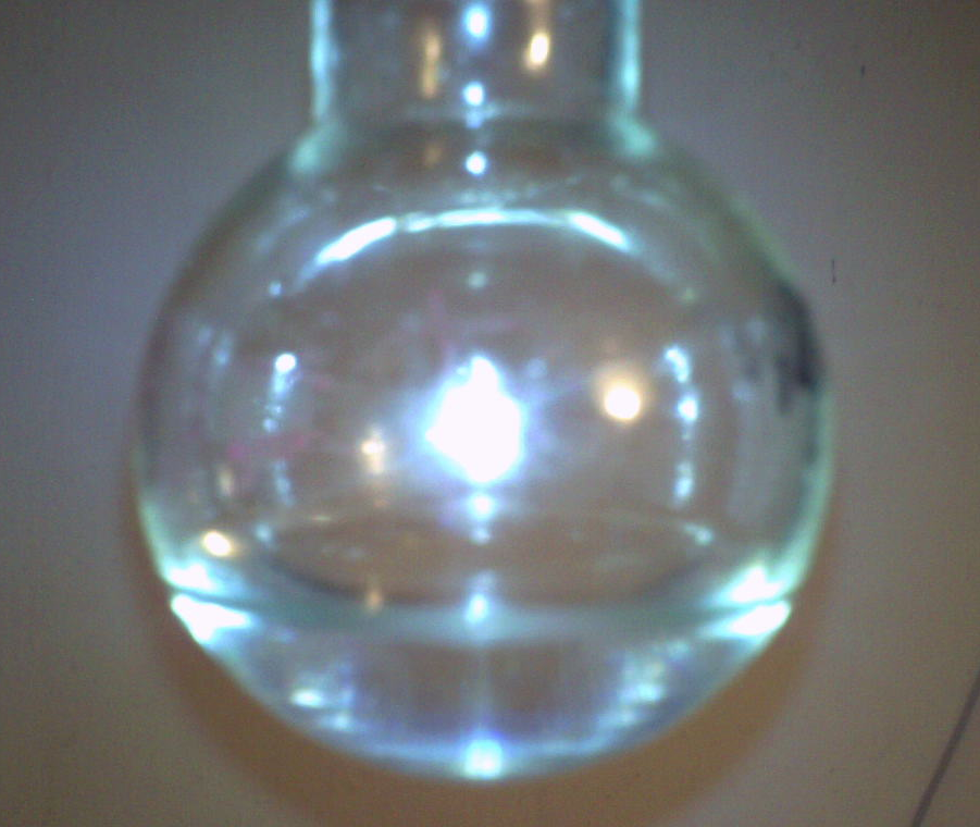 This is a cropped version of Orlan's vial of amphetamine freebase, converted to png format. The original commons file, an image uploaded by Orlan, is named File:Amfetamina.wolna.zasada.jpg